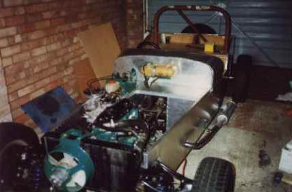 Locust Seven - Chassis and body Scan of original photograph taken by Peter Wannop